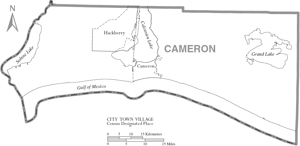 Map of Cameron Parish, Louisiana, United States with municipal boundaries